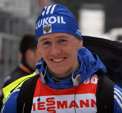 Nikita Kriukov